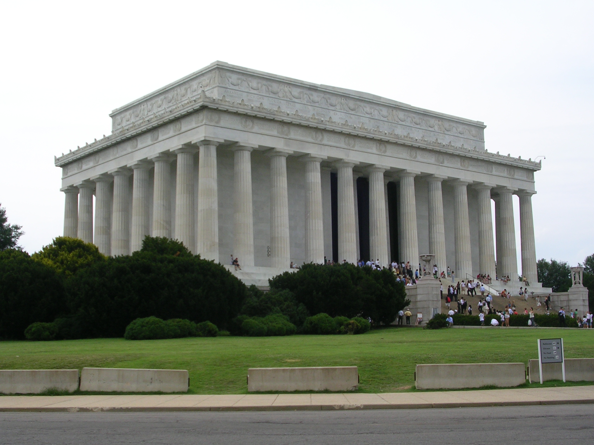 The Lincoln Memorial in Washington, DC